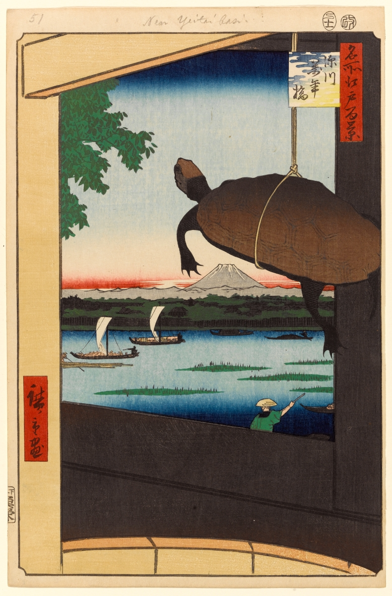 Part of the series One Hundred Famous Views of Edo, no. 056, part 2: Summer.